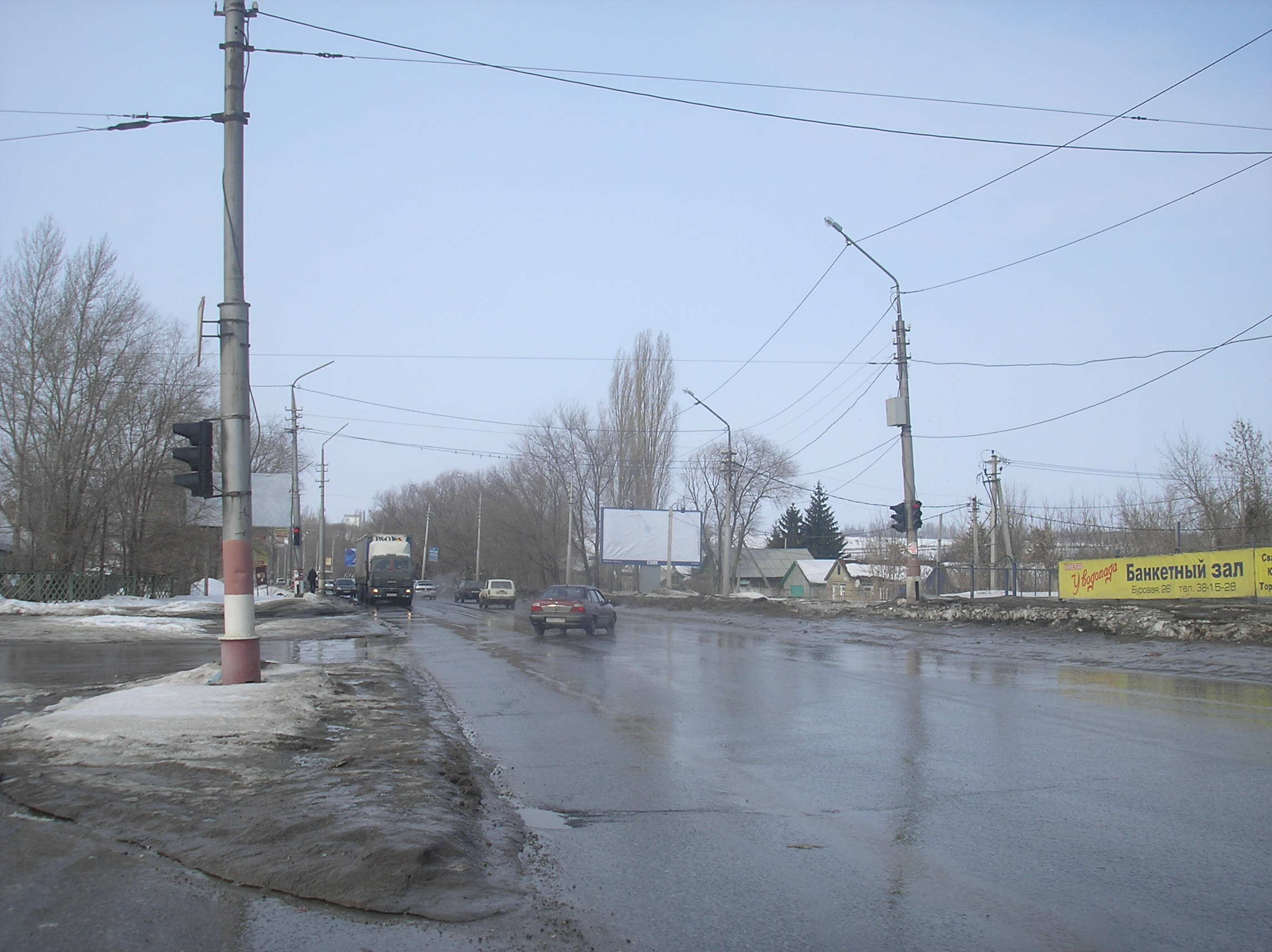 Moskovskoye highway in Elshanka in Saratov.